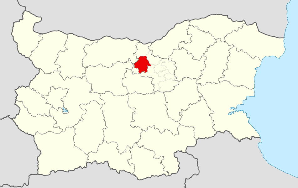 Location map of Pavlikeni Municipality within Bulgaria and Veliko Tarnovo Province. Equirectangular projection, N/S stretching 130 %. Geographic limits of the map: N: 44.4° N S: 41.1° N W: 22.1° E E: 28.9° E